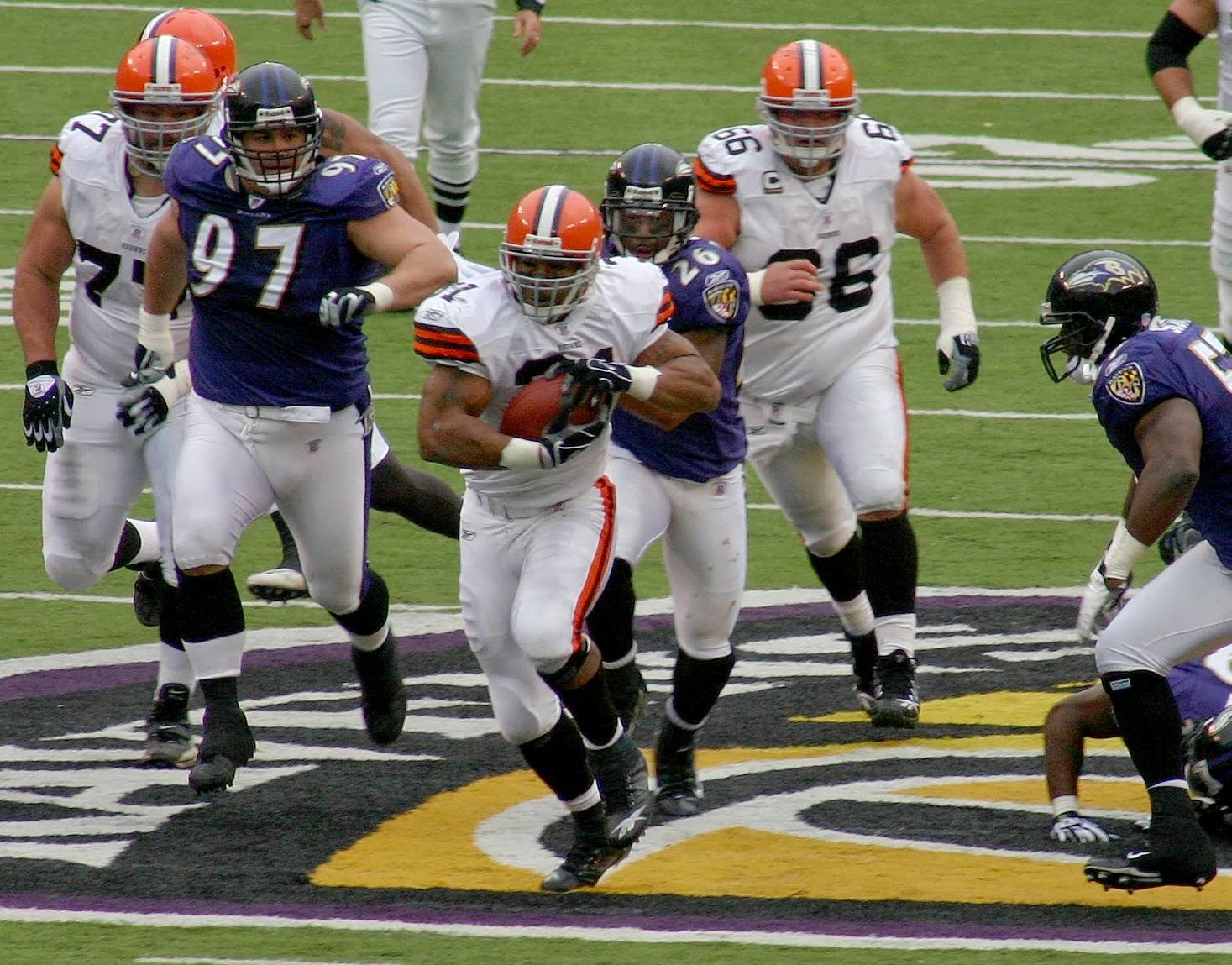 Jamal Lewis during the Cleveland Browns 33-30 OT win over the Baltimore Ravens on November 18, 2007. Lewis finished with 92 rushing yards and a touchdown in his return to the Baltimore.